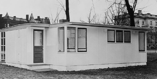 Houses for Britain. Model of prefabricated house erected at Scott Circle, Washington, D.C. of the type of temporary, emergency dwelling which it is planned to ship 30,000 to Great Britain under lend-lease. View of front of house with kitchen entrance facing camera and front entrance behind open screen. Bathroom and one of two bedrooms behind kitchen b&w film copy neg. from print